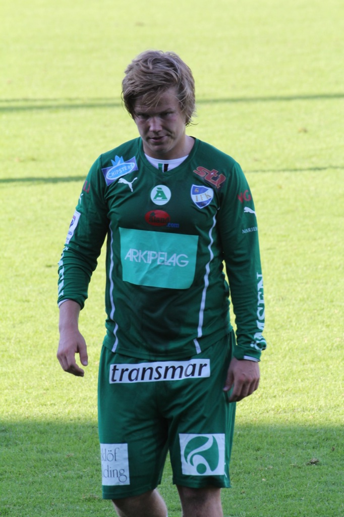 Football player Petteri Forsell in IFK Mariehamn's kit after an away game against VPS on August 4, 2013.